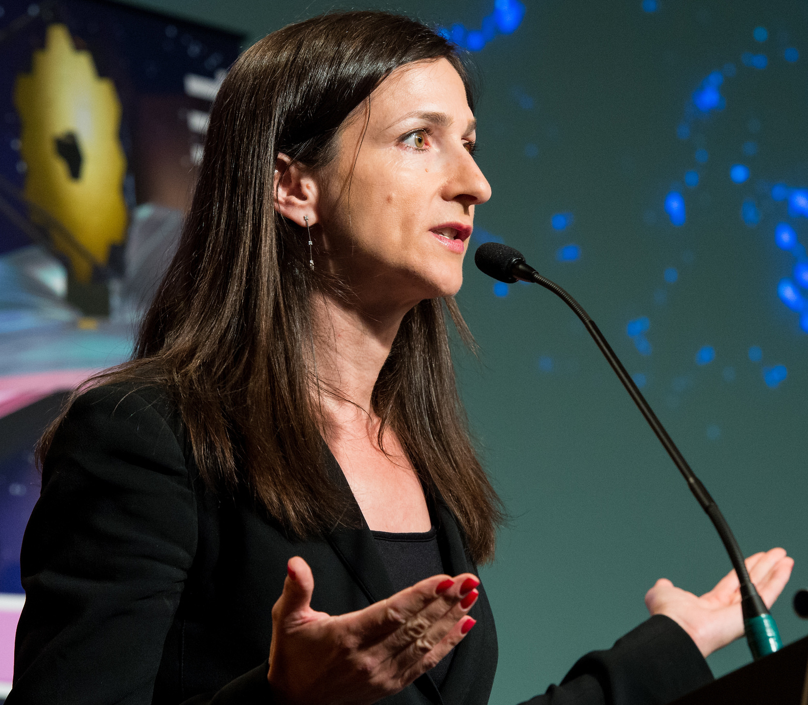 Sara Seager, a MacArthur Fellow and Professor of Planetary Science and Physics at the Massachusetts Institute of Technology, speaks during a panel discussion on the search for life beyond Earth in the James E. Webb Auditorium at NASA Headquarters on Monday, July 14, 2014 in Washington, DC. The panel discussed how NASA's space-based observatories are making new discoveries and how the agency's new telescope, the James Webb Space Telescope, will continue this path of discovery after its schedule launch in 2018. Photo Credit: (NASA/Joel Kowsky)